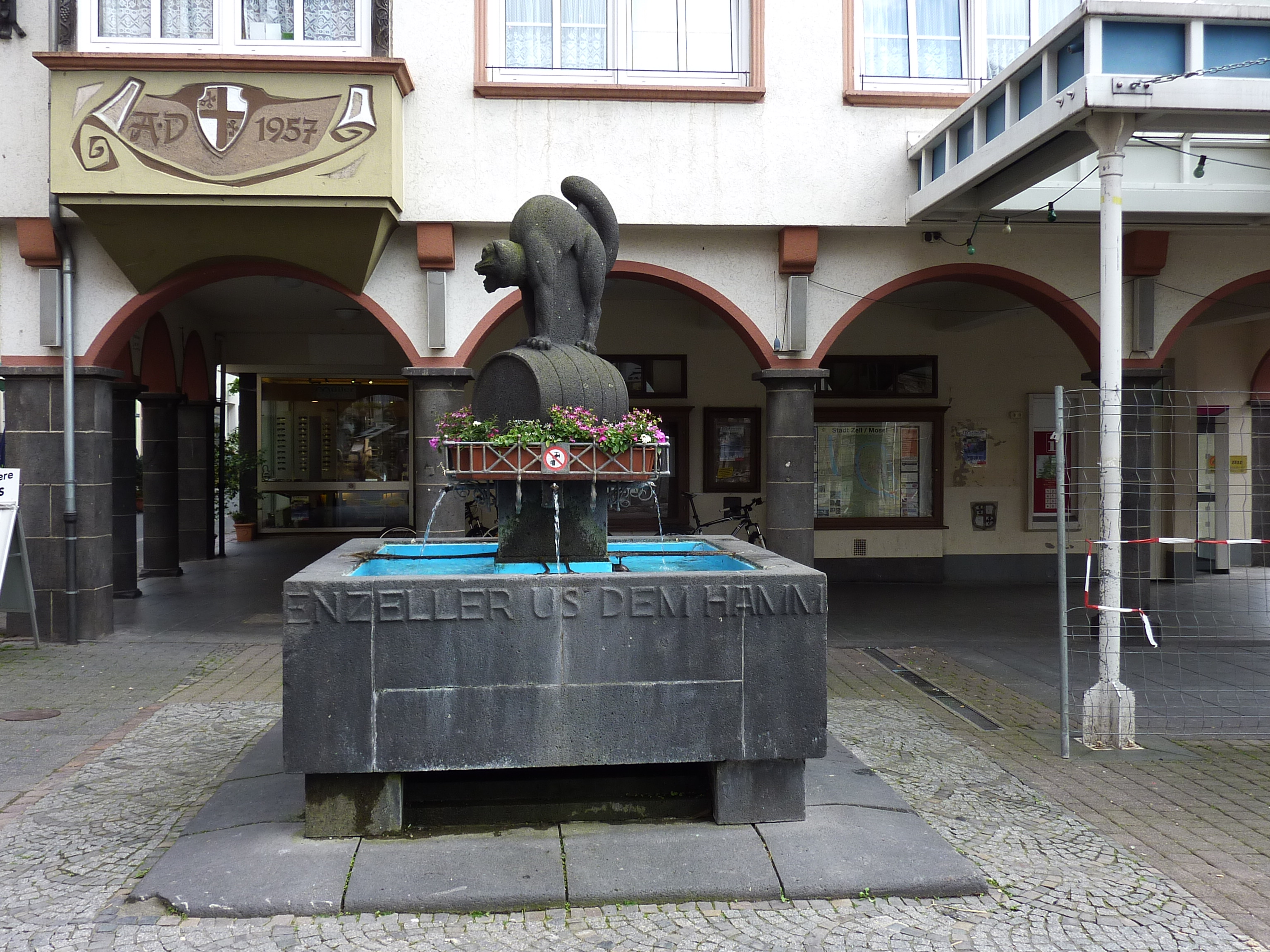 "Schwarze Katz" fountain in Zell